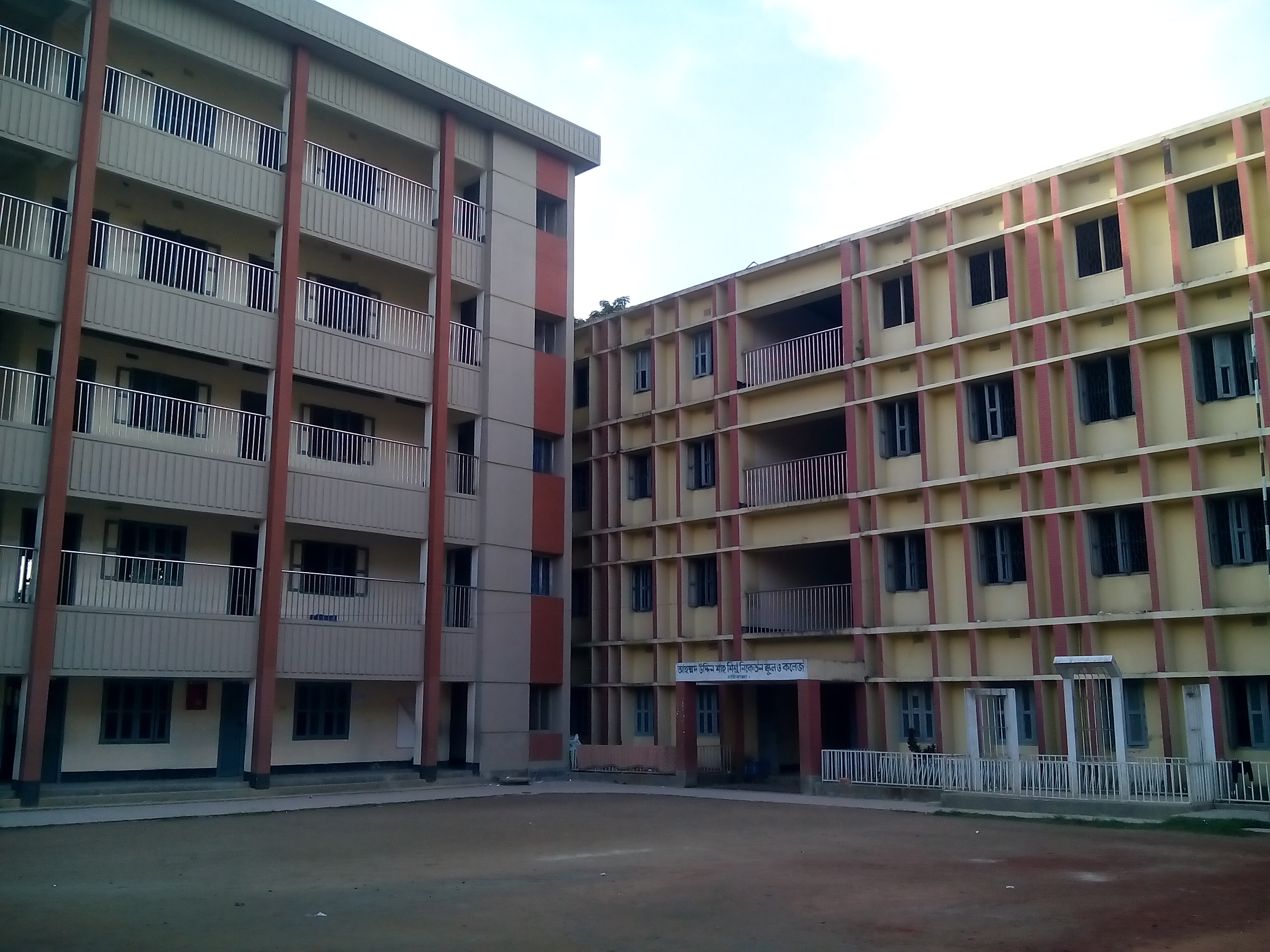 It is a famous educational institution of Gaibandha District.